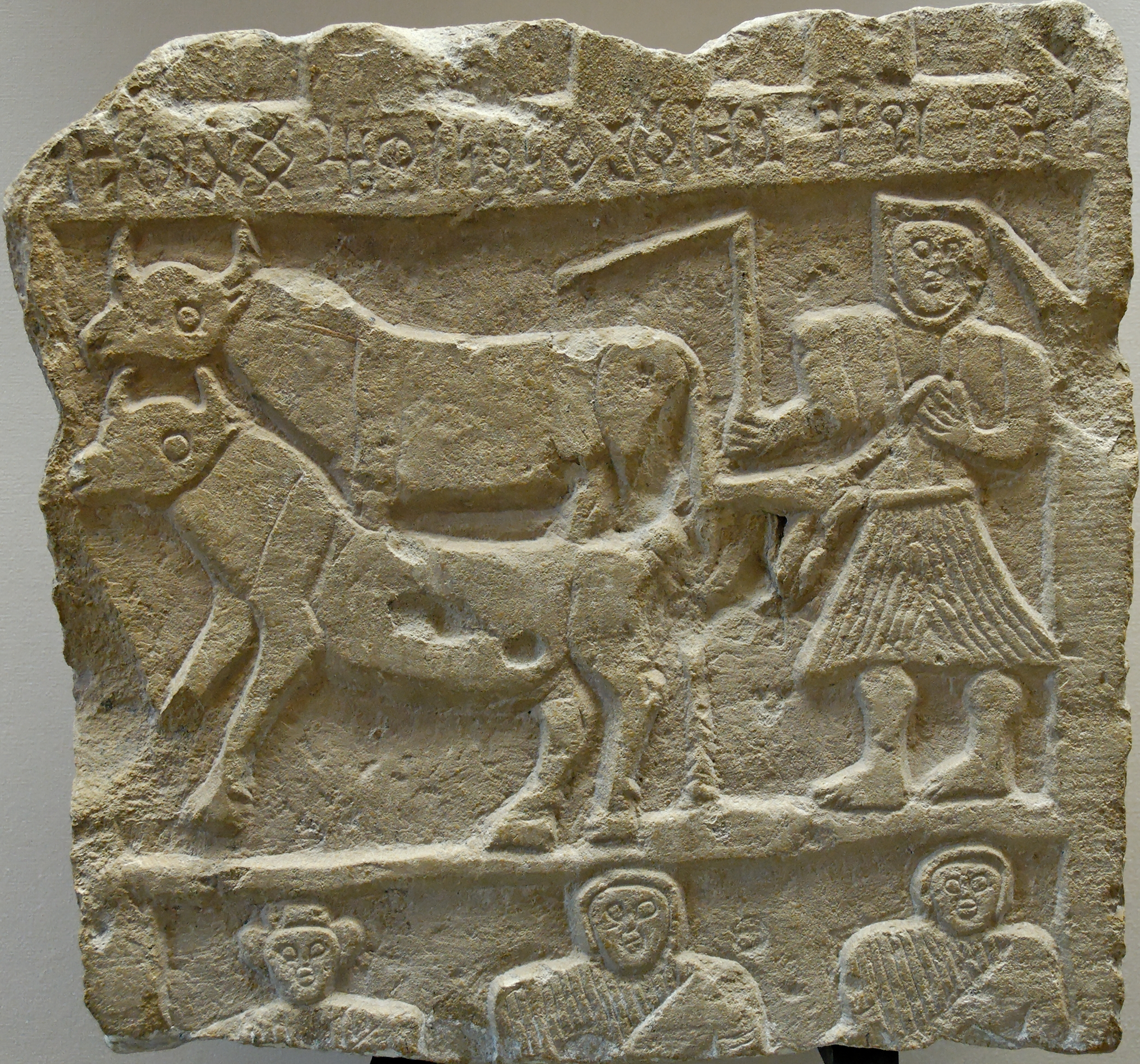 Funerary stele; upper register: ploughman; lower register: three busts. Inscription in Sabaean language: “Stele of Yahmad, Shufnîqên, Hassat and Khallî-”. Limestone, 1st–3rd centuries AD, Southern Arabia.